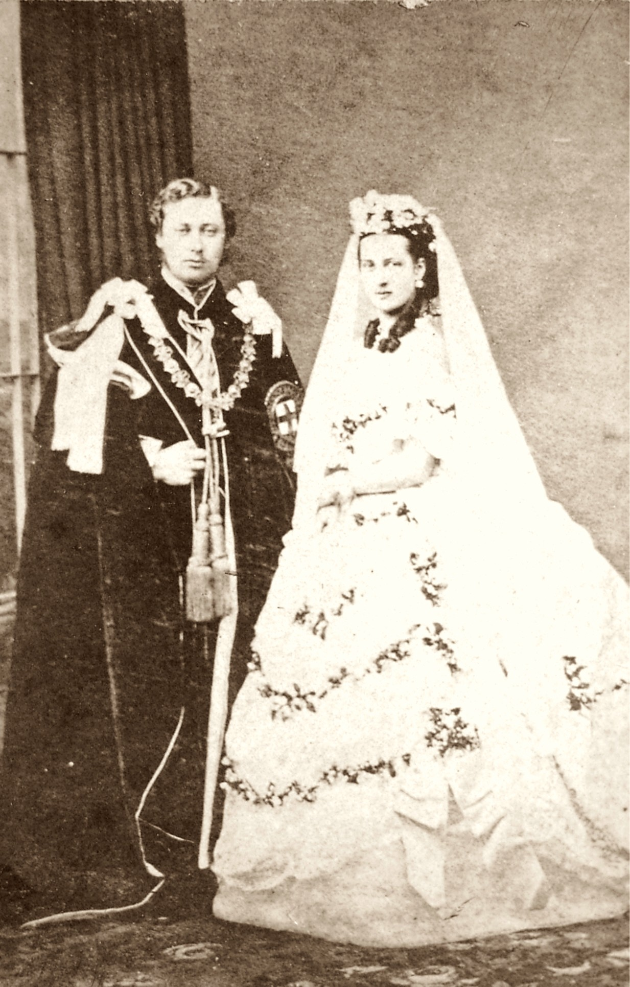 Edward, Prince of Wales and Alexandra, Princess of Denmark Reproduktion Günter Josef Radig